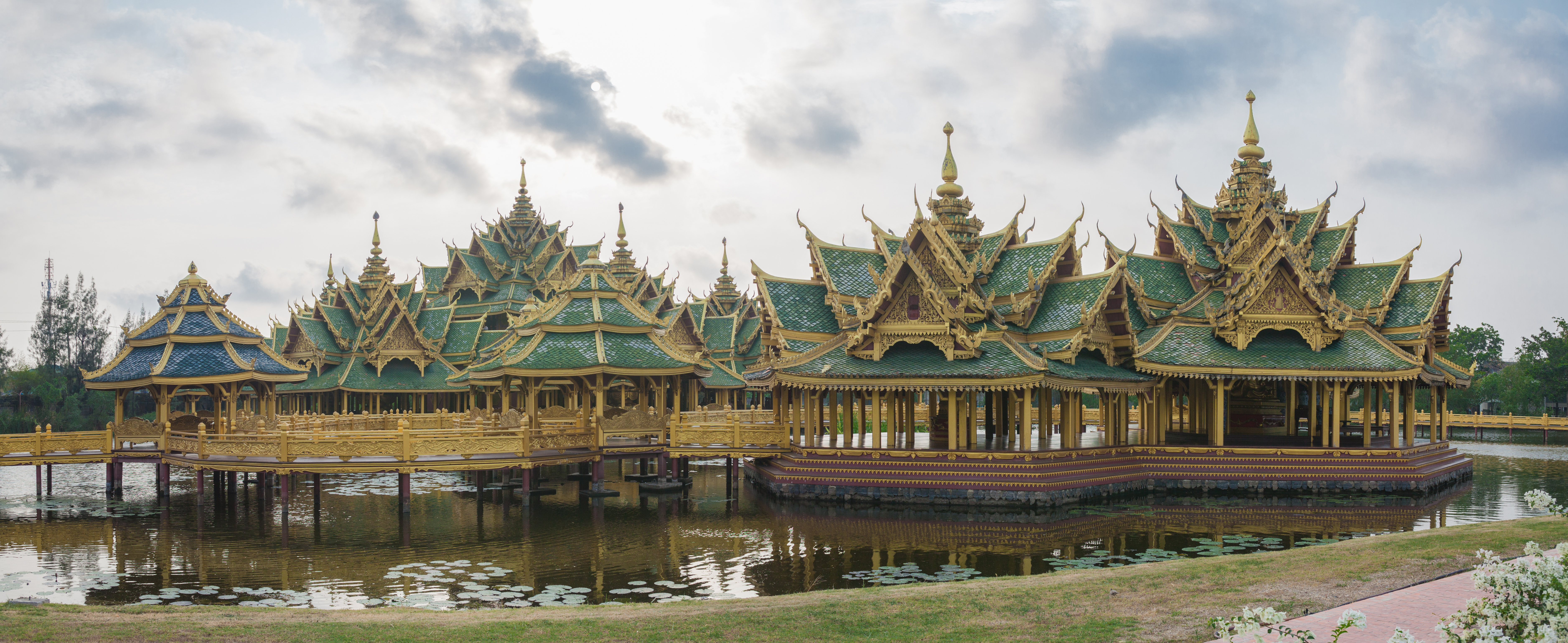 Pavilion Of The Enlightened in Ancient City (Mueang Boran), Samut Prakan Province.